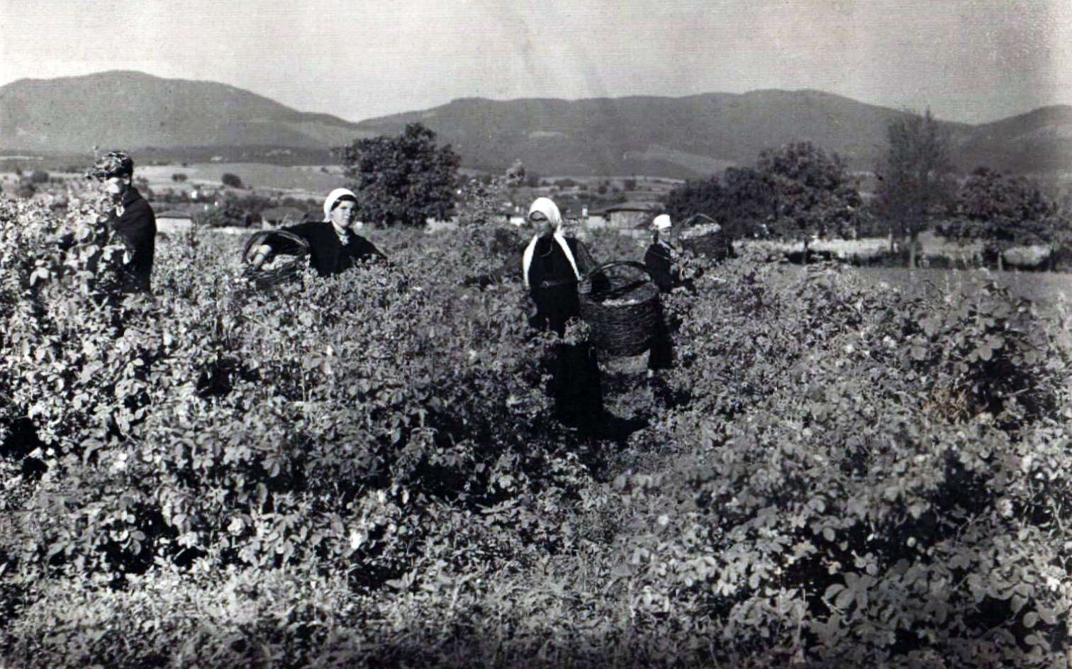 Rose harvests in Bulgaria